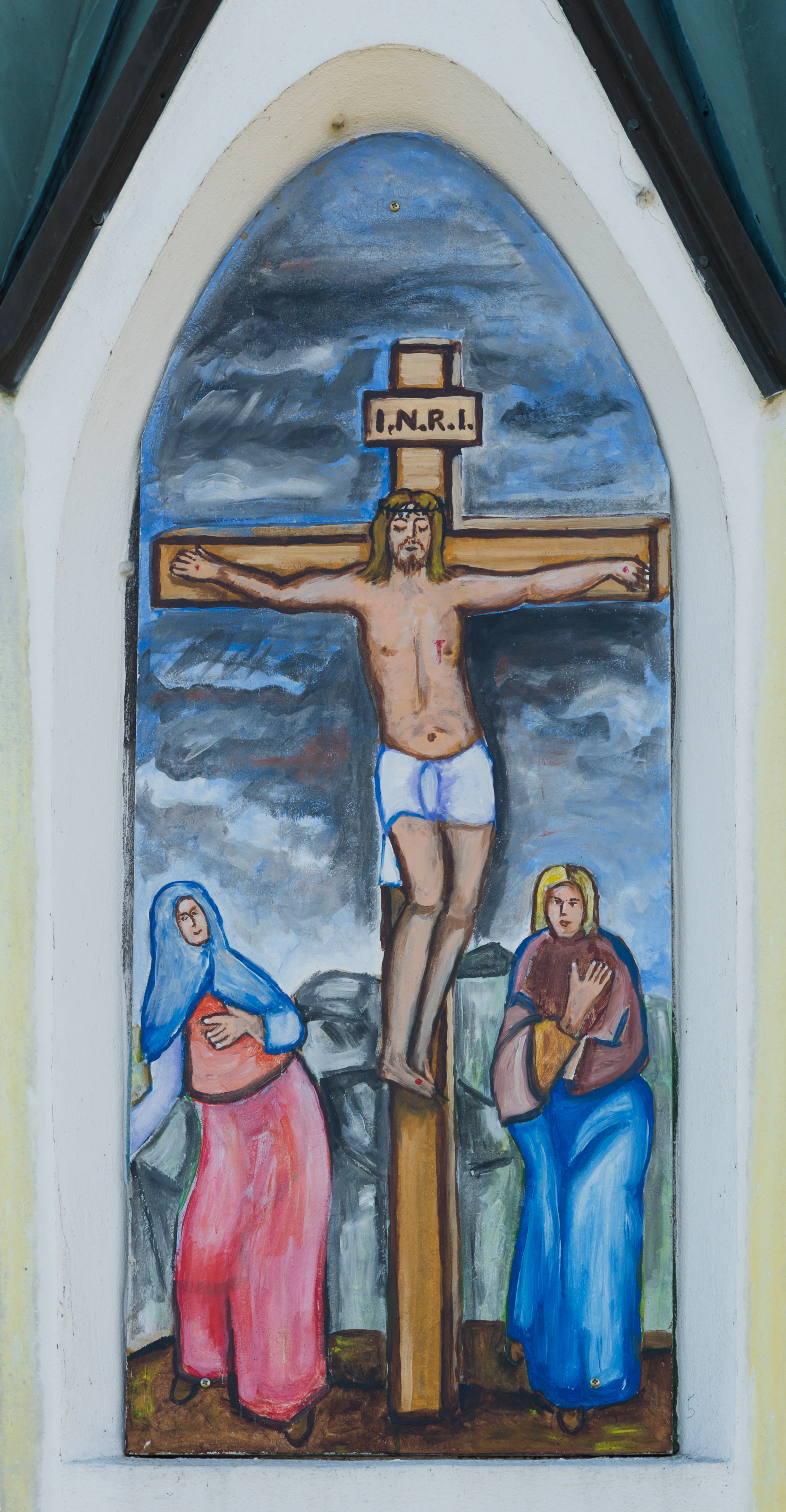 Painting of Crucifixion of Christ at the wayside shrine in the center of a roundabout near Launsdorf, municipality Sankt Georgen am Laengsee, district Sankt Veit, Carinthia, Austria, EU